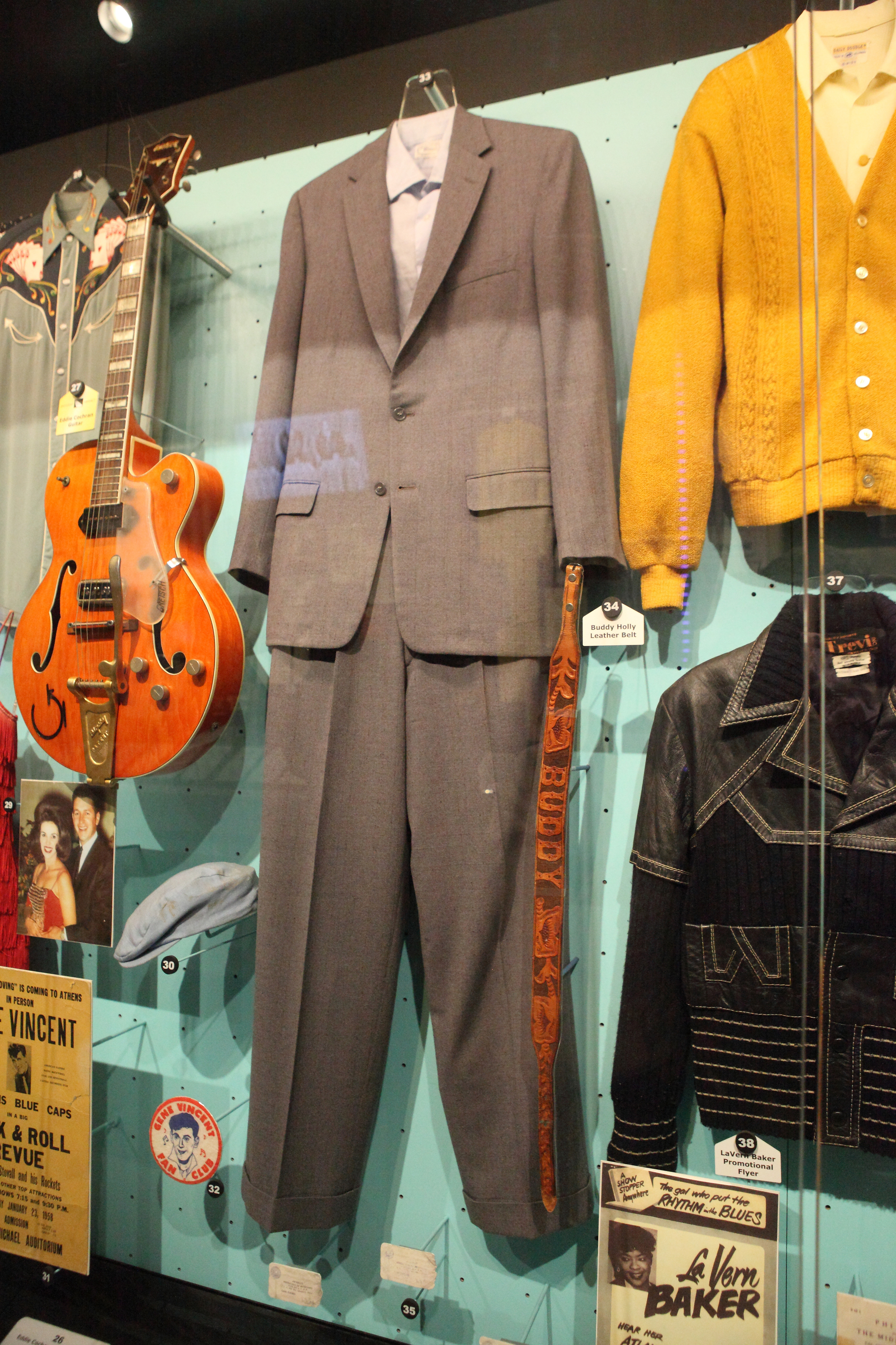 Buddy Holly's suit at the Rock and Roll Hall of Fame in Cleveland, Ohio. Flickr Tags: ohio outfit clothing cleveland clothes suit buddyholly rockandrollhalloffame. Flickr Tags: Rock and Roll Hall of Fame Cleveland Ohio. from Flickr album "Rock and Roll Hall of Fame" by Sam Howzit